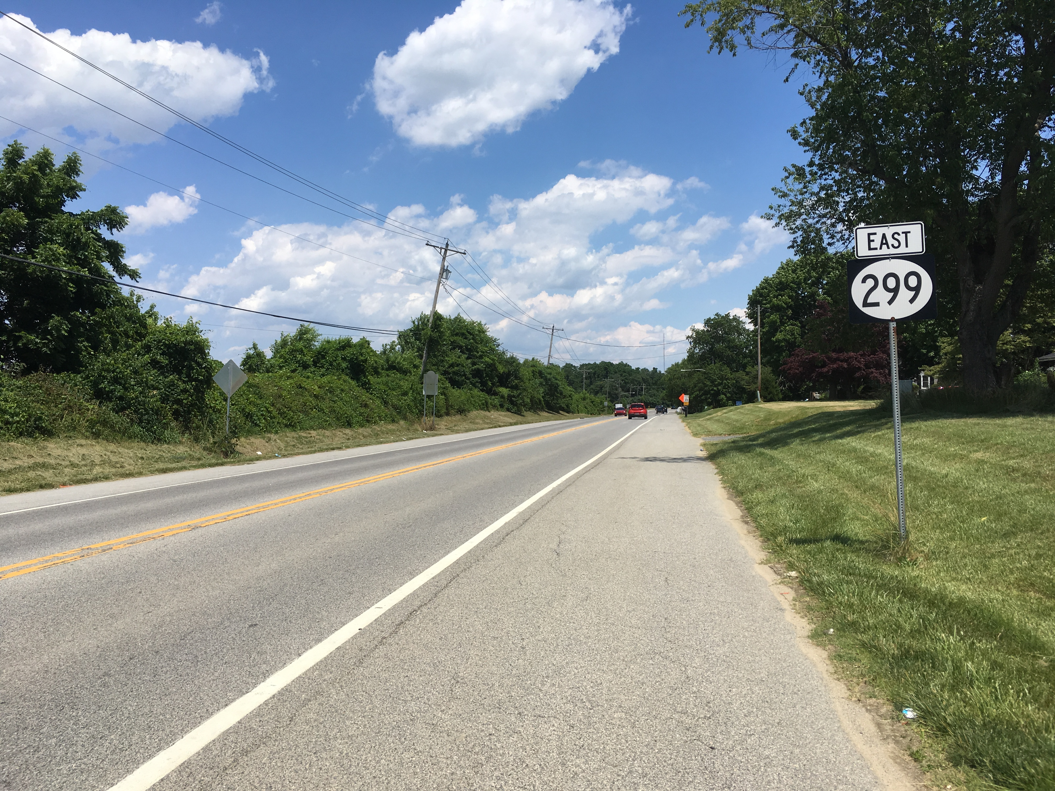 Eastbound Delaware Route 299 (Middletown Odessa Road) past the interchange with Delaware Route 1 in Middletown, Delaware